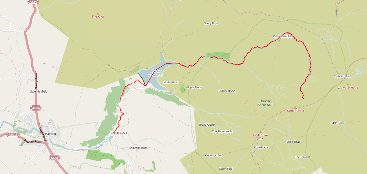 The River Kinder, in Derbyshire This map may be incomplete, and may contain errors. Don't rely solely on it for navigation.